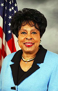 Diane Watson, member of the United States House of Representatives.